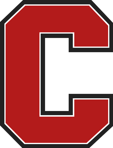 Cornell University "C" wordmark